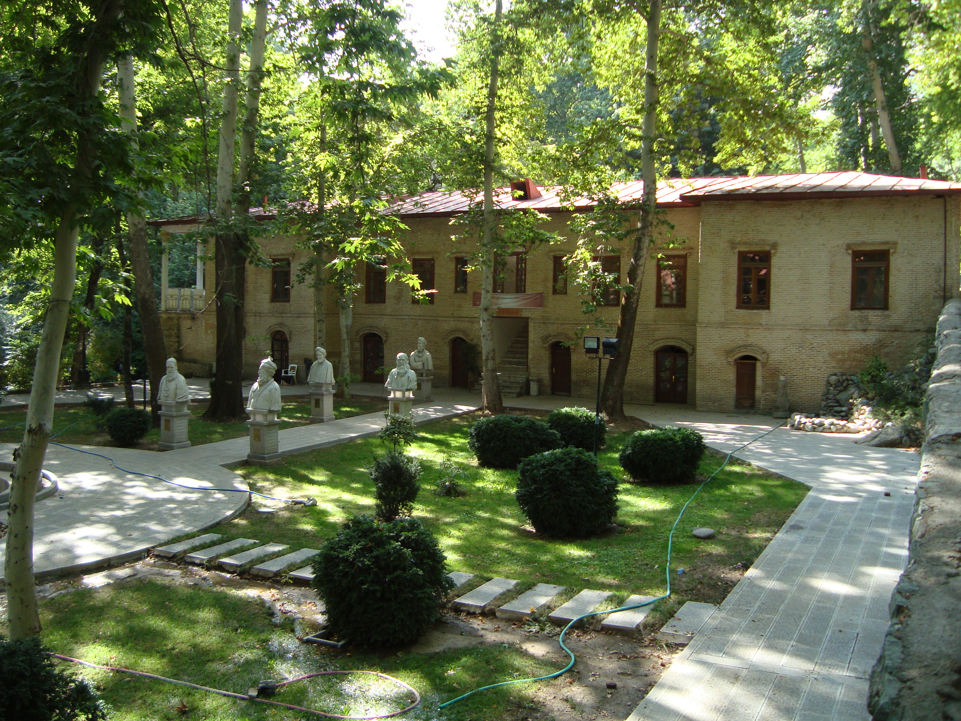 Ostad Farshchyan Museum, Sa'ad abaad museum, Tehran, Iran